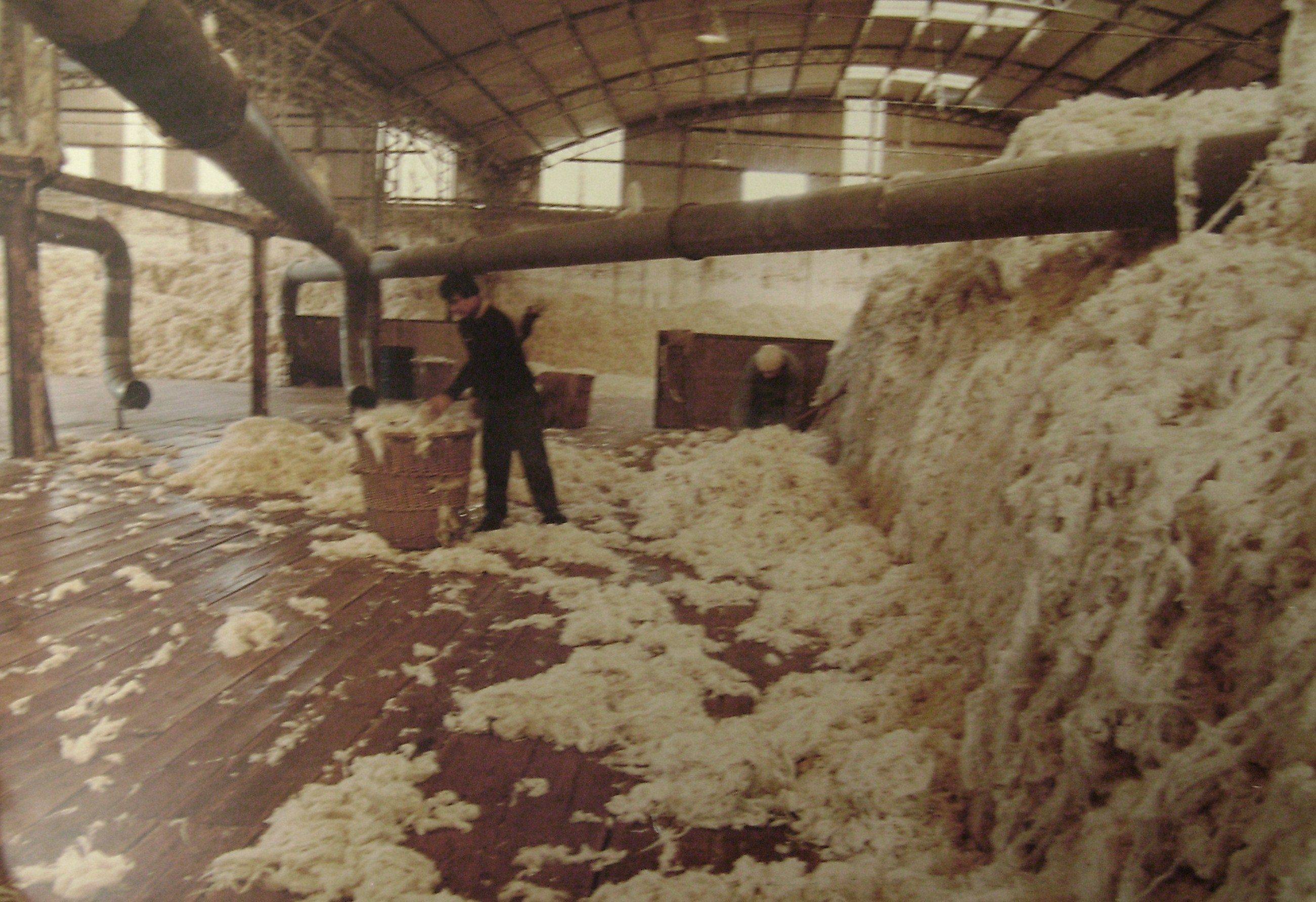 Collection of pure wool for baling and export.